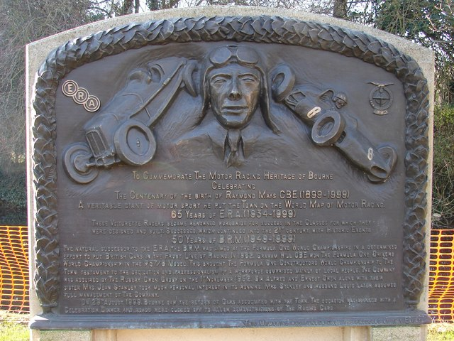 Raymond Mays Memorial Plaque commemorating the birth of Raymond Mays, racing driver and father of the BRM. Read about Raymond and some of Bourne's other connections here